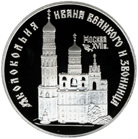 Commemorative coin - Ivan the Great Bell Tower